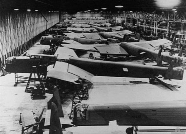 Interior of an Armstrong Whitworth aircraft factory (at Coventry?), showing Whitley Mk.V bombers being constructed, in January 1941. The first aircraft visible is RAF serial N1441.